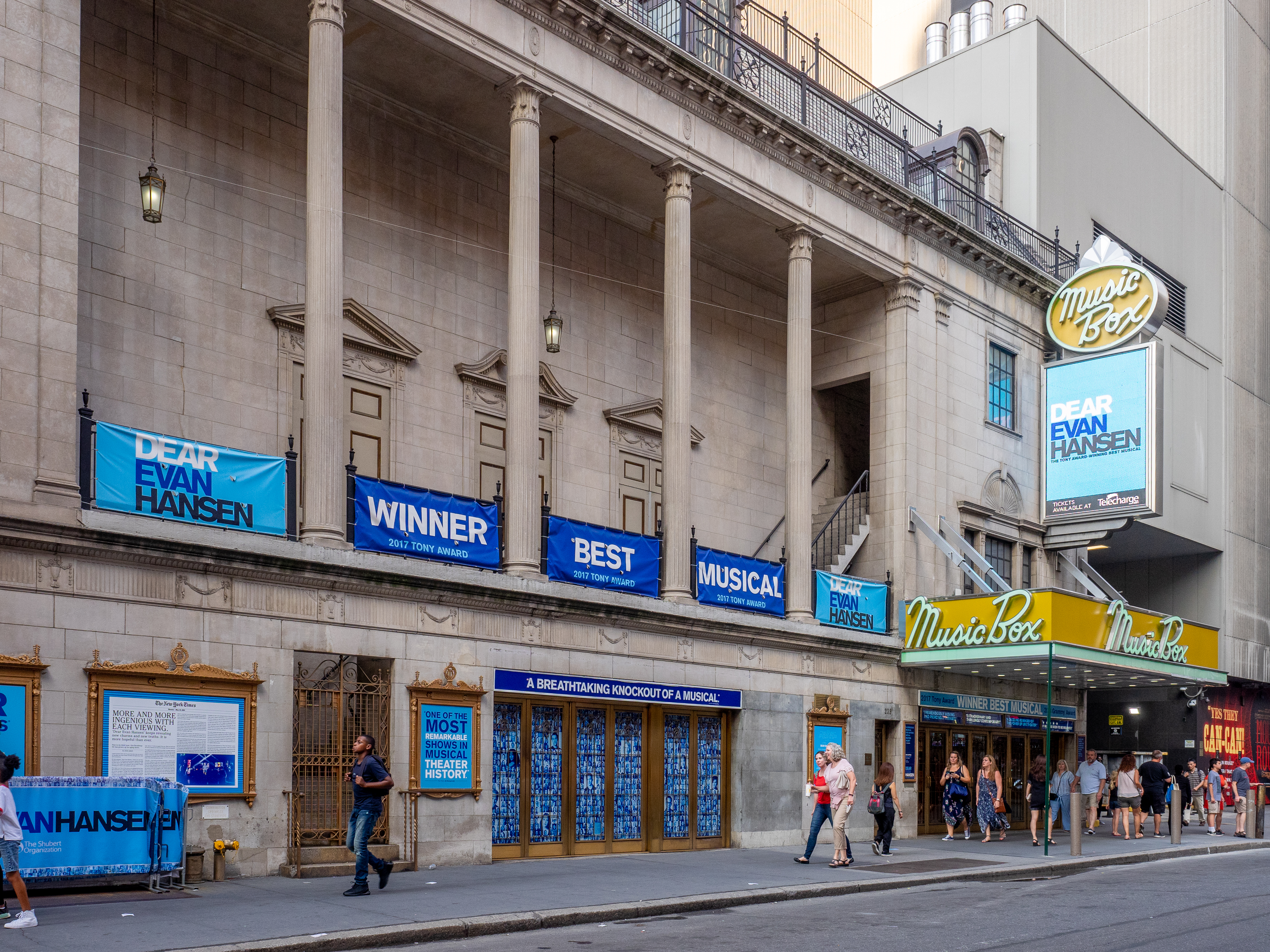 Theater District, Midtown Manhattan, NYC